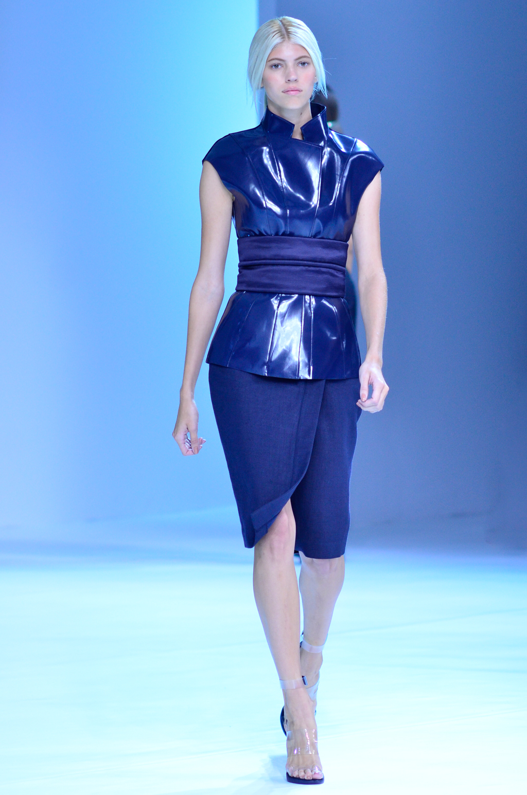 Devon Windsor walking the runway for Porsche Design.